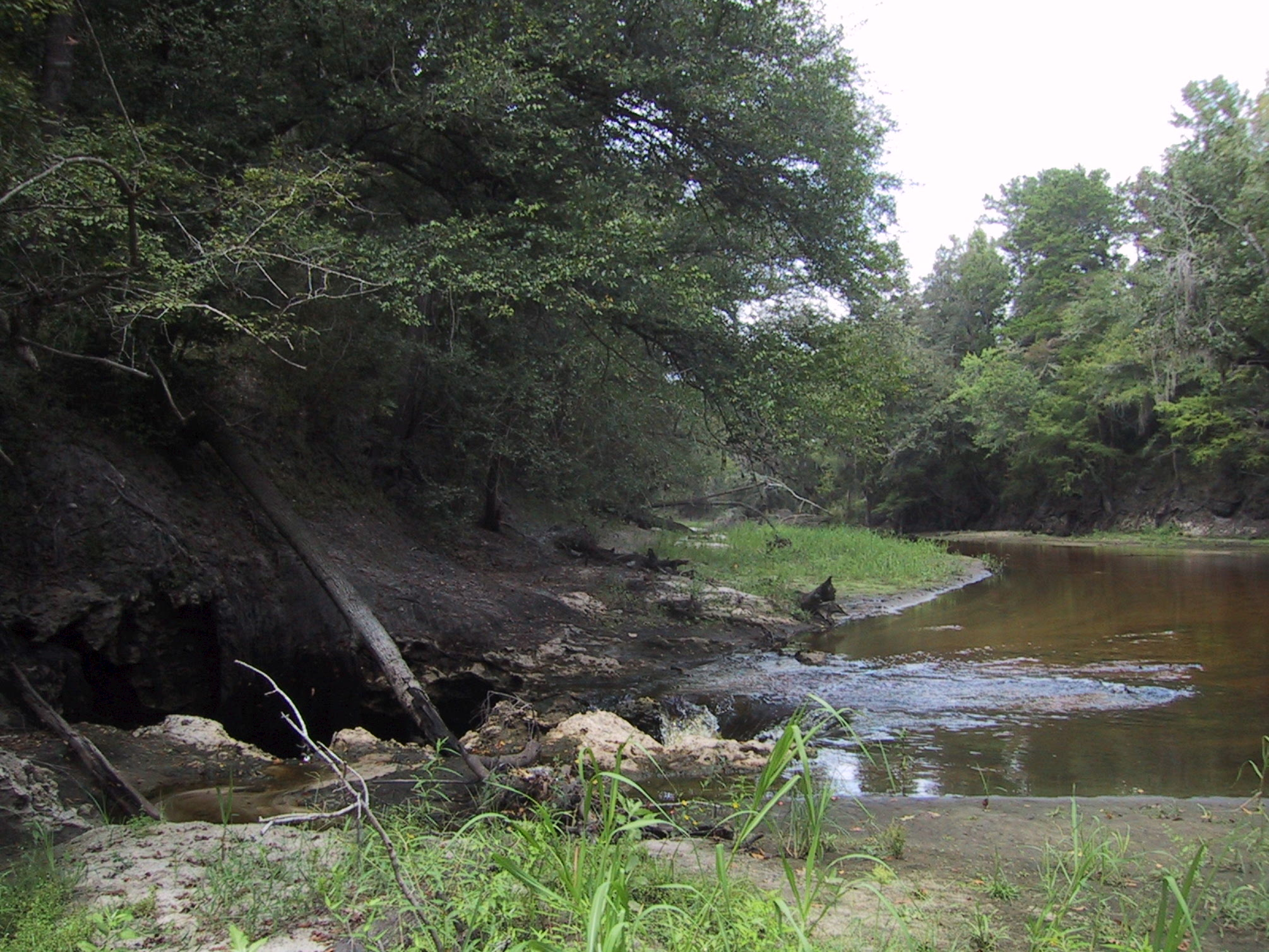 Surface water-Groundwater (SW-GW) interaction , August 2002. Entire flow of Alapaha River near Jennings going into sinkhole to Floridan Aquifer. Sinkholes are one of a variety of properties of Karst topographies and carstic underground water systems that develope world wide in water soluble (chemically soluble) rocks (in Florida: carbonate rocks).